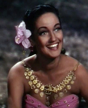 Cropped screenshot of Dorothy Lamour from the film Road to Bali.